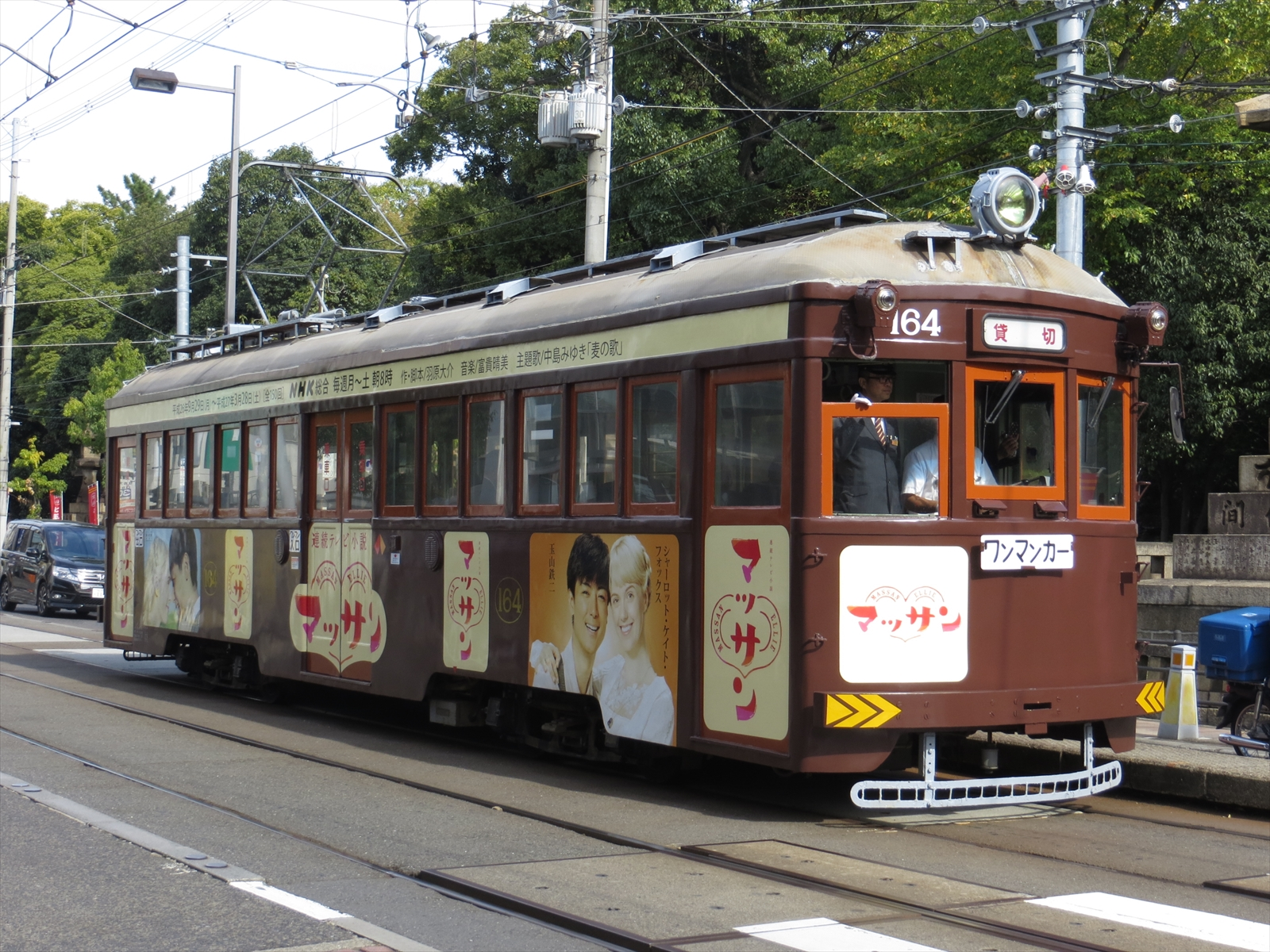 Hankai Tramway #164.